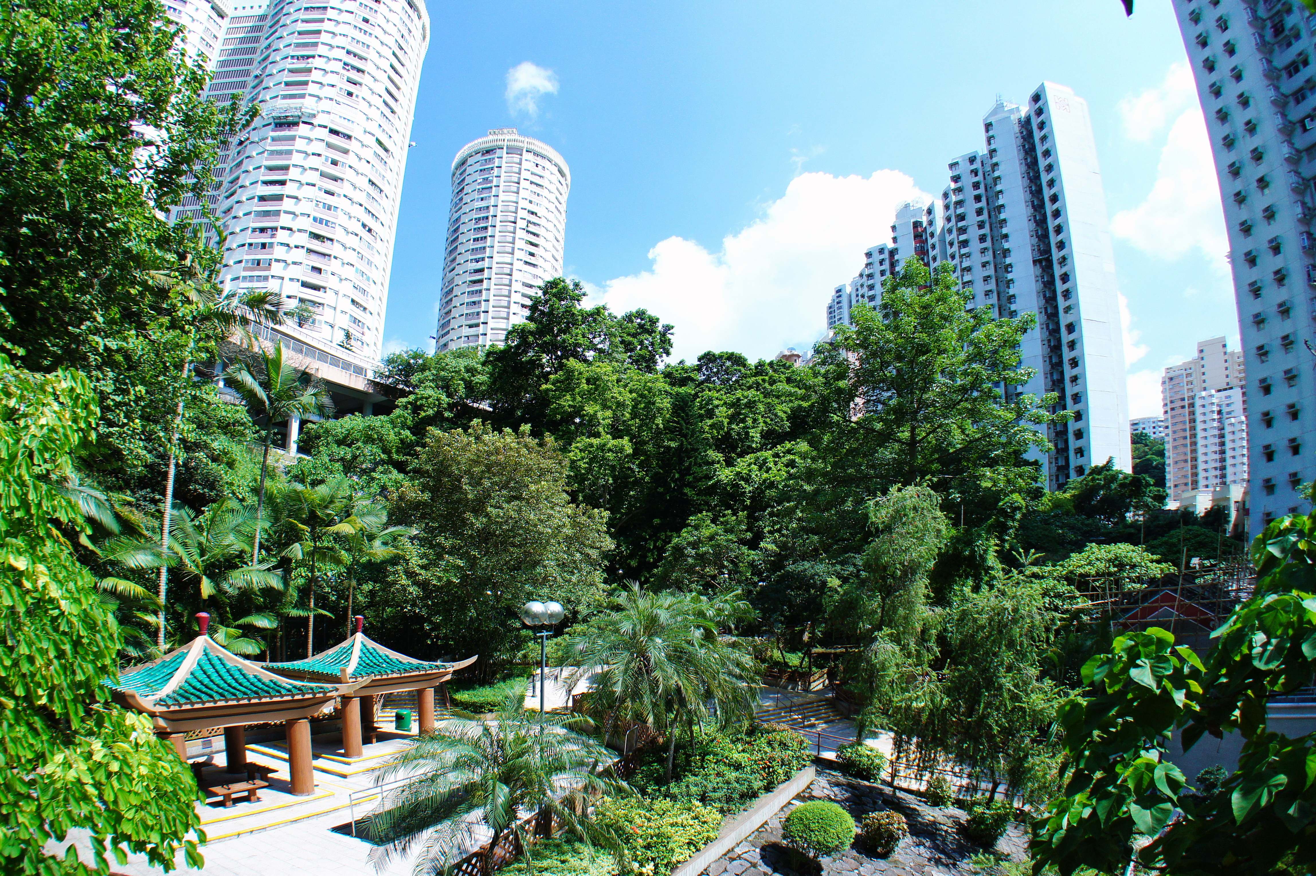 Lin Fa Kung Garden, Hong Kong.